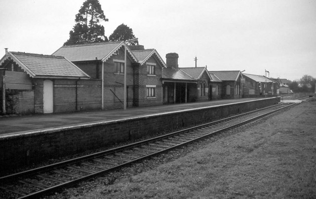 Cullybackey Station 17 years later The station buildings are still complete, but gone are the following; The signal box and level crossing gates and the loop line. The loop platform is covered by grass and brambles. In the background can be seen the former goods shed. Image made from the loop platform